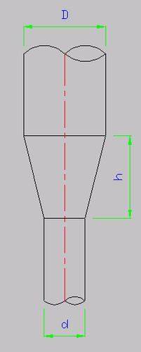 Concentric Reduction